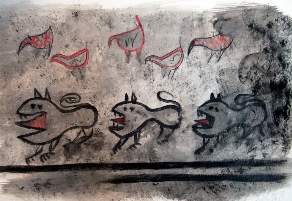 My sketch for la Tomba dei Leoni Ruggenti (Véies).